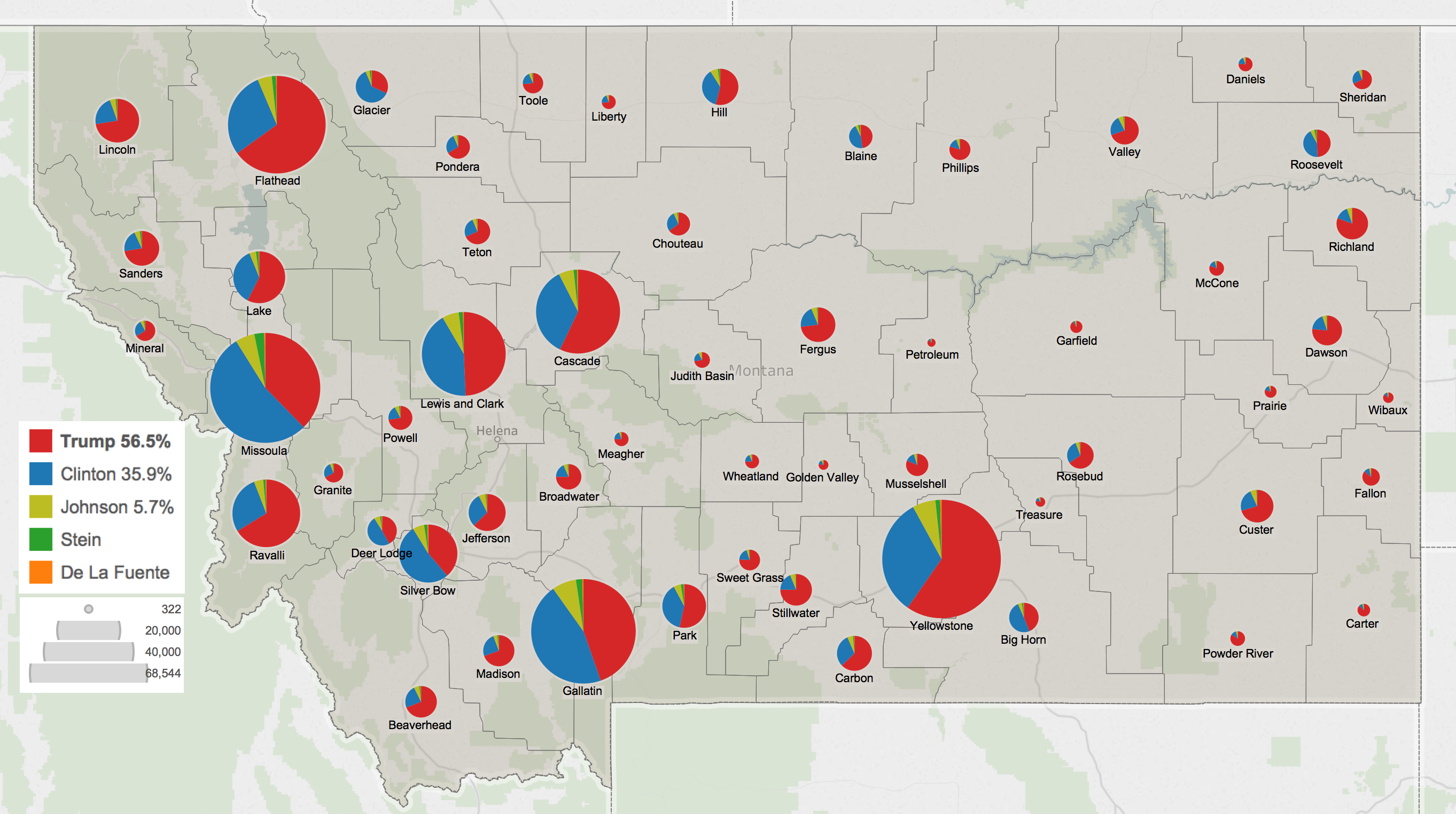 United States presidential election in Montana, 2016 results by county showing number of votes by size and candidate by color. Source: 2016 Statewide General Election Canvass (PDF) Montana Secretary Of State Linda Mcculloch. Accessed December 14, 2016. Image excludes 2,623 write-in votes. CountyDe La FuenteClintonSteinJohnsonTrumpwrite-in Beaverhead1811437026533530 Big Horn21209471185185313 Blaine26120273102126813 Broadwater55733716923481 Carbon14182870307374824 Carter1706246787 Cascade13512175446199619632187 Chouteau1073237131167914 Custer1511763530236570 Daniels01686517307 Dawson778733184332043 Deer Lodge23205874276176312 Fallon215444512790 Fergus1512025230242690 Flathead1061329365621993024077 Gallatin168242461061401523802527 Garfield1341276532 Glacier22312195203162015 Golden Valley3713293653 Granite3472258311922 Hill212371118438347819 Jefferson24199875394417746 Judith Basin323512798727 Lake414776229534753071 Lewis & Clark10314478559221016895233 Liberty32062476985 Lincoln22204196396672946 Madison13118058195329735 McCone01547378620 Meagher219310417292 Mineral1151935108133010 Missoula172315431704335722250177 Musselshell53321894196725 Park313595200500498053 Petroleum1301122780 Phillips23181999172310 Pondera107383413517997 Powder River01271398842 Powell105514116320290 Prairie21001305560 Ravalli60622326199214810210 Richland667123239390824 Roosevelt1615609518017974 Rosebud1598733152225313 Sanders13121894299428644 Sheridan2477209212413 Silver Bow9486192931057637613 Stillwater119083525136617 Sweet Grass3402237715957 Teton128082716221709 Toole6402299614977 Treasure1596263510 Valley1488644234269818 Wheatland617914437022 Wibaux1550184634 Yellowstone23922171898431640920564 Date 14 December 2016Source Own workAuthor Dennis Bratland Licensing[edit]